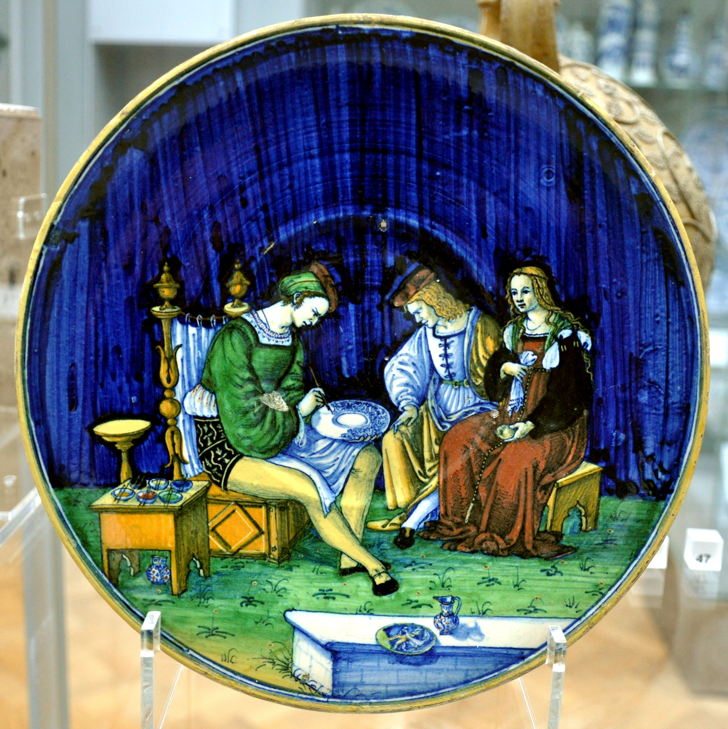 Dish showing a maiolica painter; made in Cafaggiolo